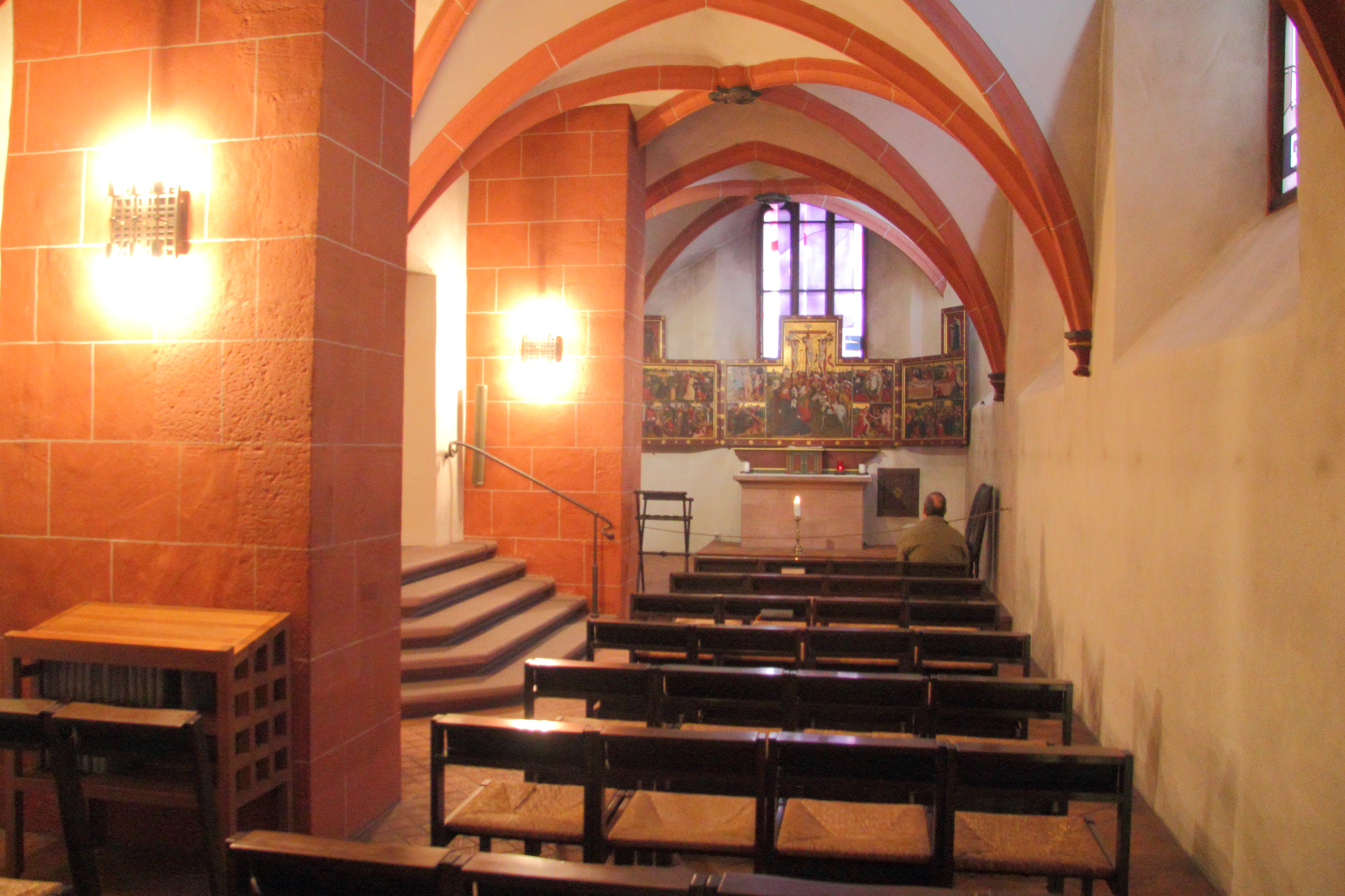 Frankfurt, Germany: Frankfurt Cathedral, election chapel of the Roman-German kings and emperors